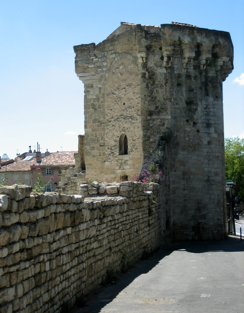 Part of the wall that once surrounded the city of Aix-en-Provence (Tourreluco).